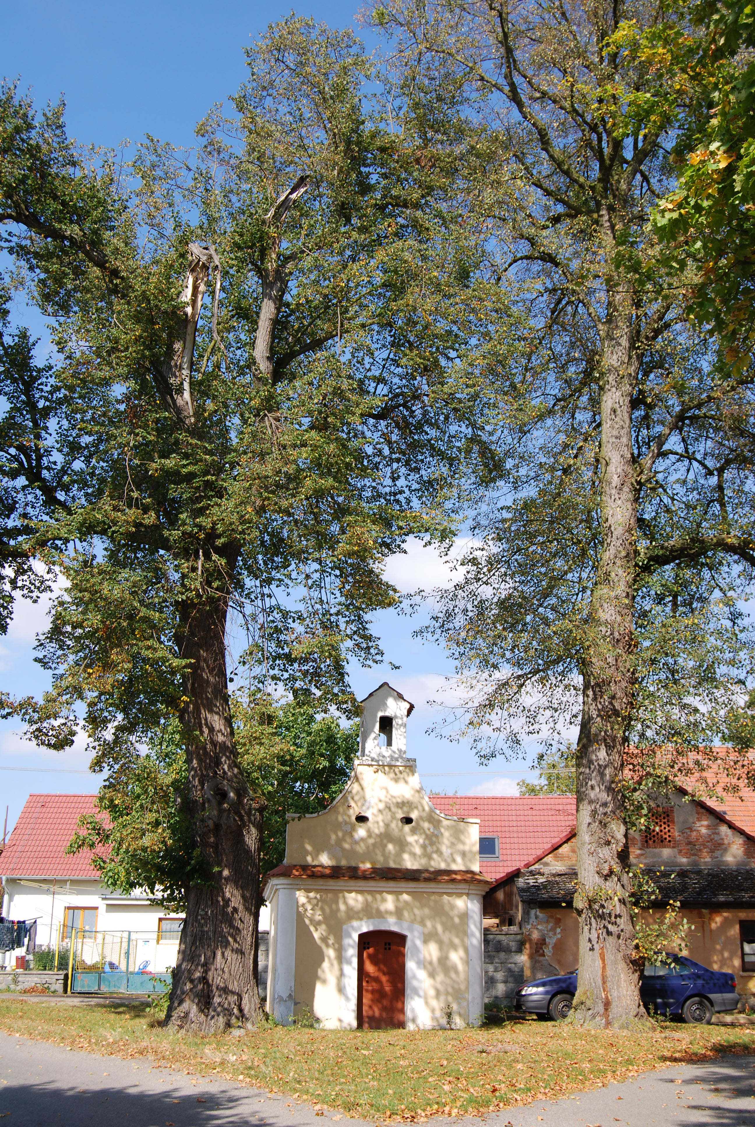 Myštice village in Strakonice District, Czech Republic. Chapel